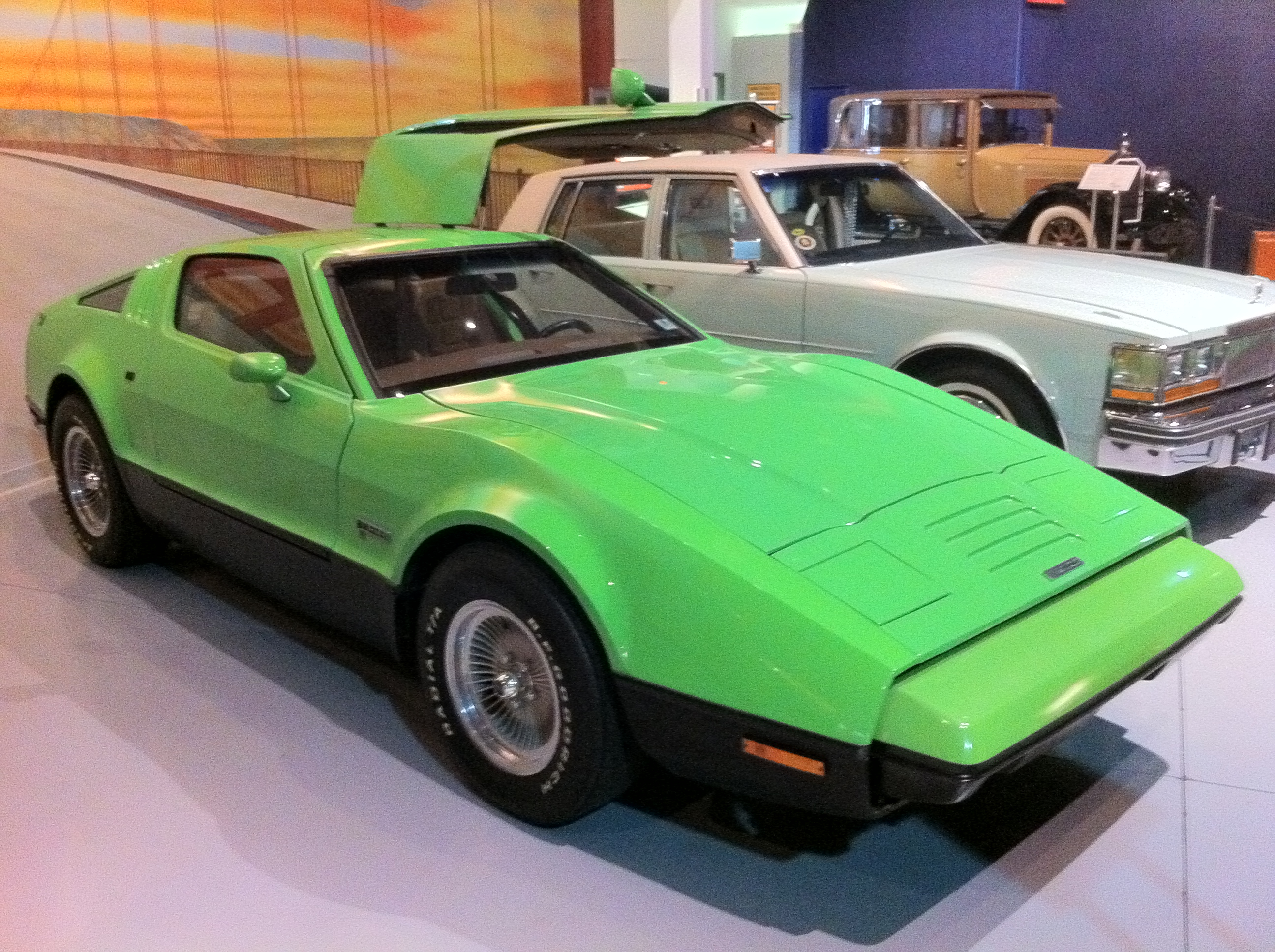 1974 Bricklin SV-1 sports car with open driver's dide "gull-wing" door. Standard was the American Motors (AMC) powertrain including the 360 CID (5.9 L) V8 engine and three-speed automatic transmission. Photograph taken at the Antique Automobile Club of America Museum, located in Hershey, Pennsylvania. The AACA is premier car club in the world focused on antique cars, trucks, motorcycles, and their history.